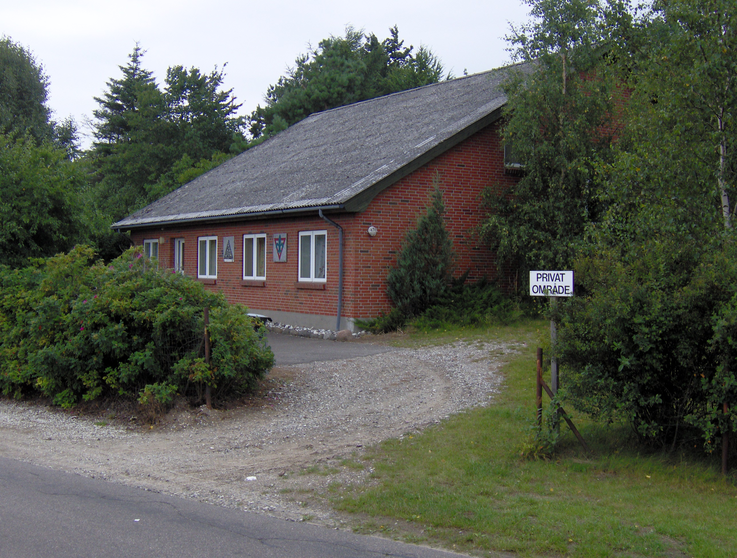 The scout hut in Allingåbro